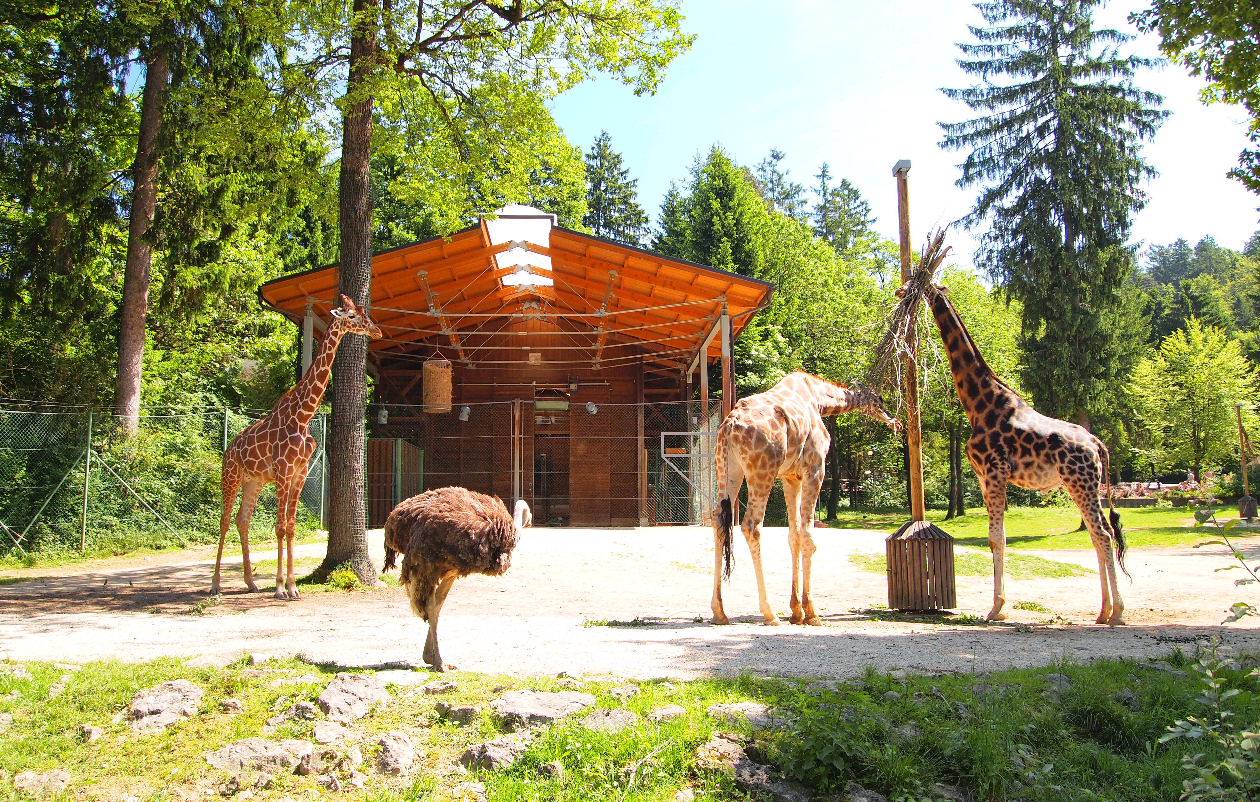 Ljubljana Zoo. This photograph was taken with an Olympus E-PL1